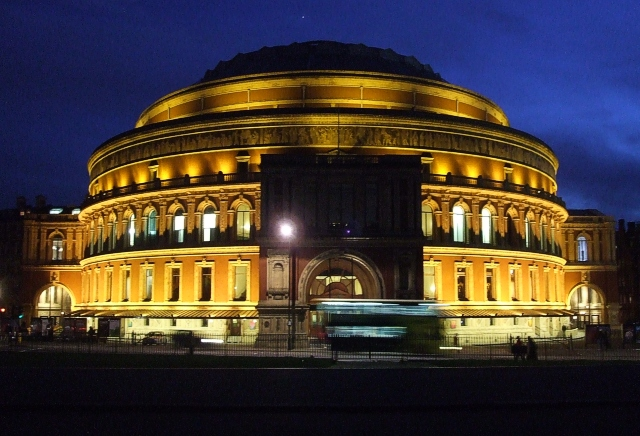 The Royal Albert Hall - evening Taken at about 4:45pm on a late November evening from the steps of the - at that time - unilluminated Albert Memorial. The portico of the main North Entrance to the hall is curiously dark in contrast to the glowing brick and stone of the rest of this rather splendid edifice. The RAH was opened by Queen Victoria on 29th March 1871, a little under ten years after the untimely death of Prince Albert, the queen's husband and consort on 14th December 1861, after whom the building was named. In fact various grand buildings in this area of London, dedicated to the advancement of Science and The Arts were originally conceived by the Prince, and the area became known as Albertopolis - see Albertopolis Considering the weather of late, I was lucky to get such a rich blue evening sky as a contrast to the orangey glow of the building - there was even an evening star (actually the planet Jupiter) glimmering almost directly above the dome.